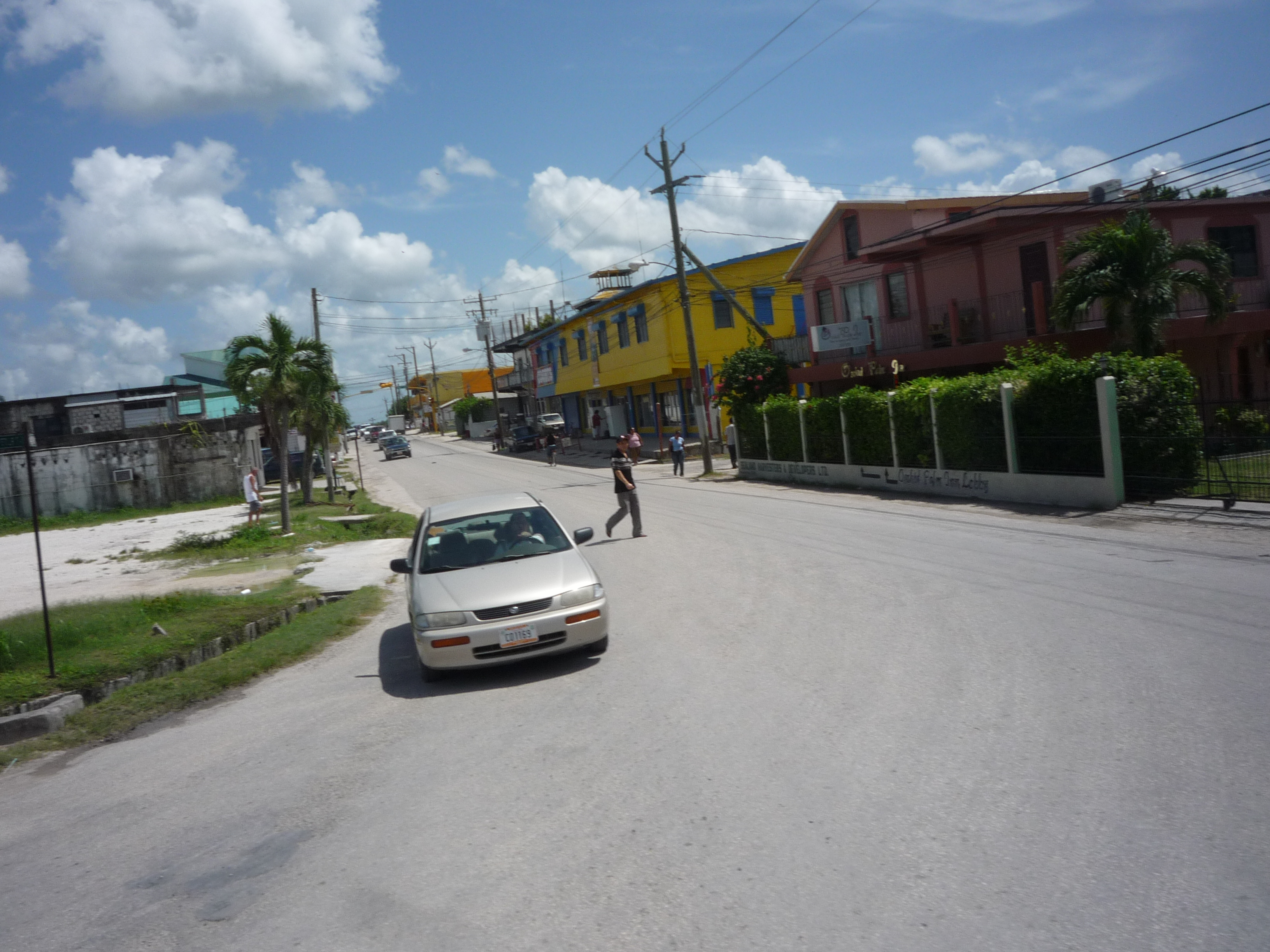 Orange Walk town along the highway.